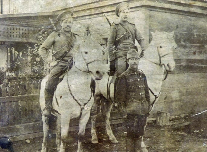 Taken in Primorsky Krai, Russia.